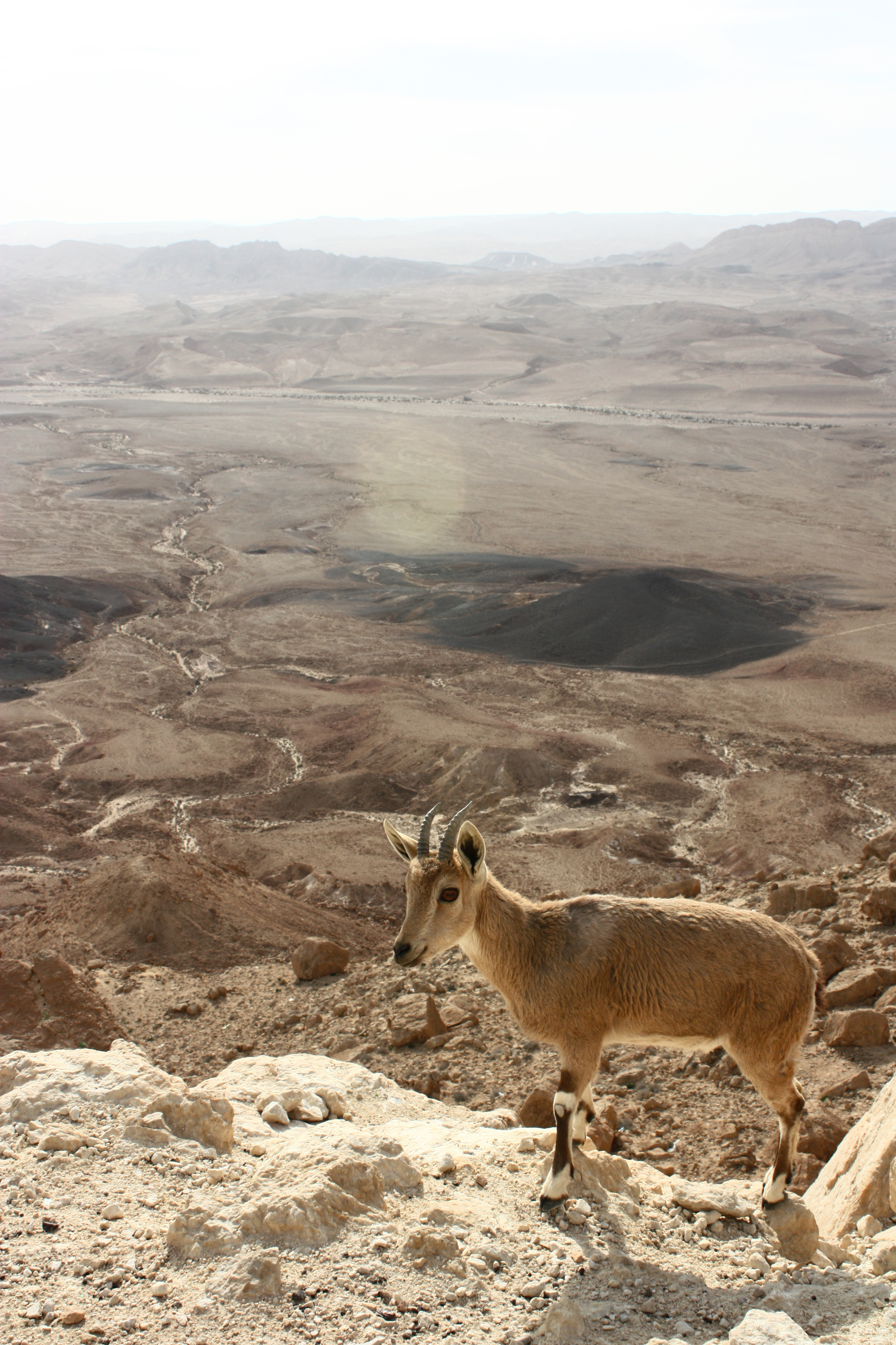 Capricorn in the mountains